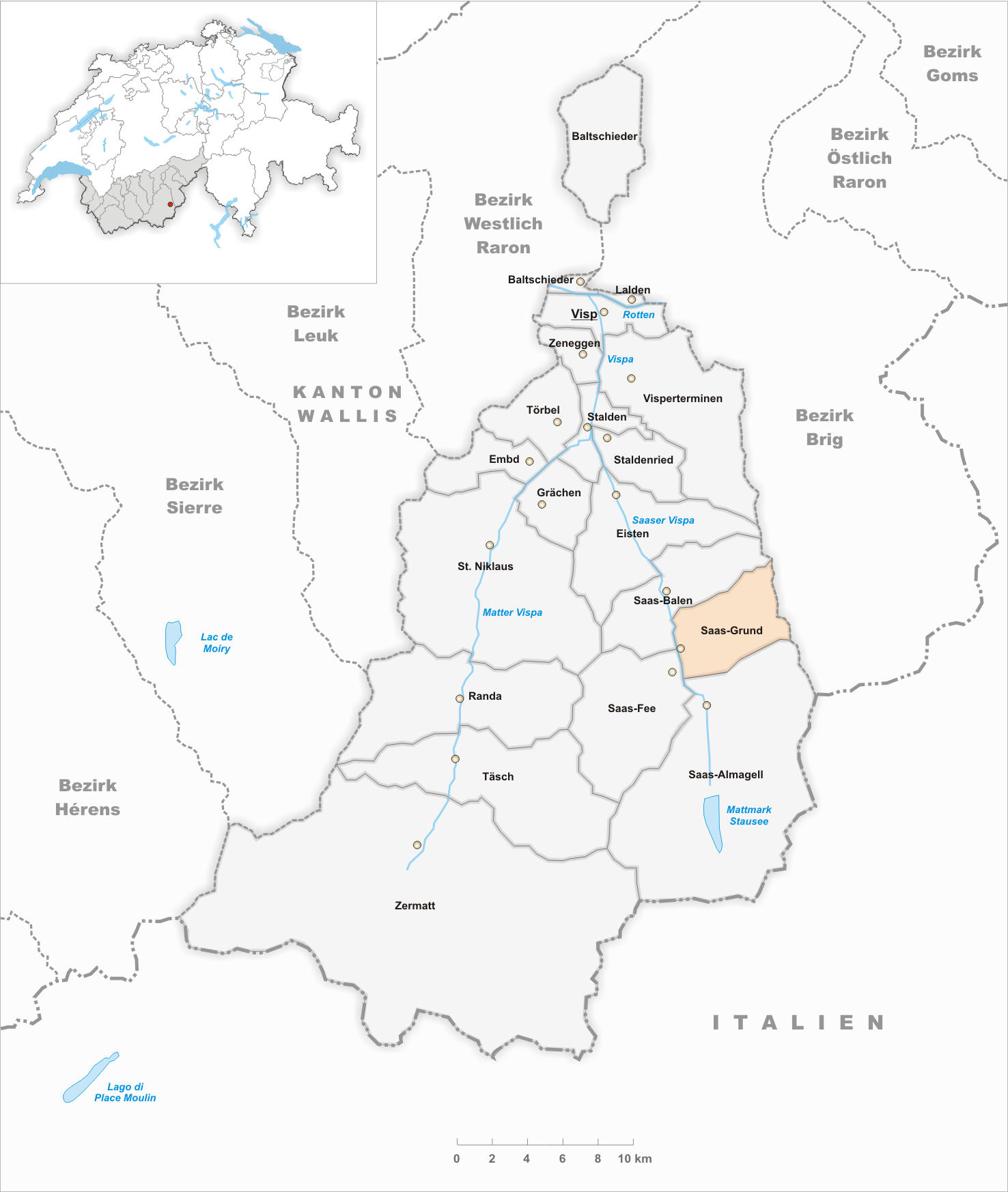 Municipality Saas Grund